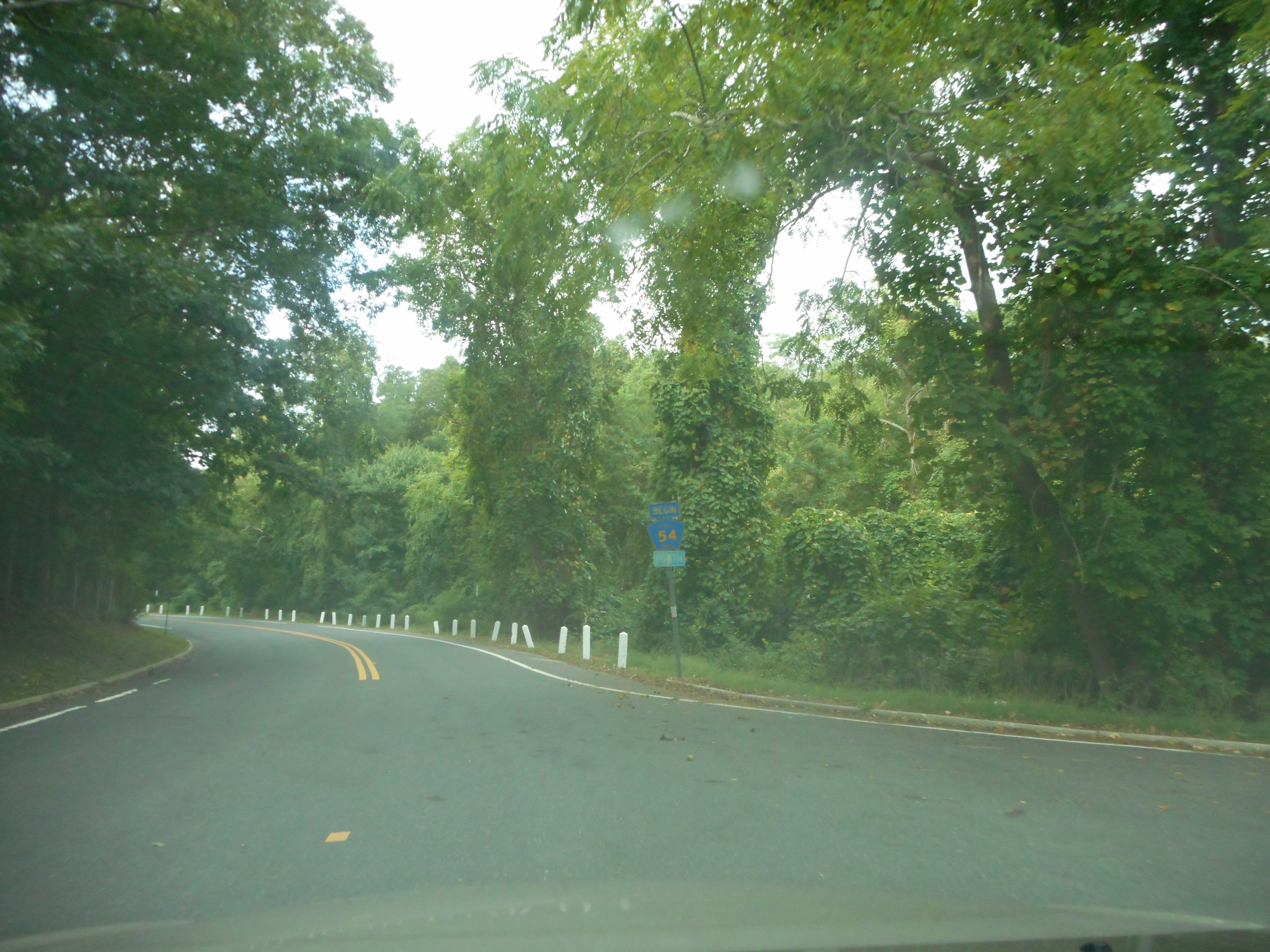 The Wye at Wildwood State Park in Wading River, New York, where the two entrances from North Wading River Road and Hulse Landing Road (Suffolk CR 54) converge. This shot is of the official beginning of southbound Suffolk County Road 54 at Wildwood Road, the entrance from Hulse Landing Road. At the opposite end of this park road, CR 54 will continue south towards NY 25A in Calverton, just before NY 25A ends at NY 25.